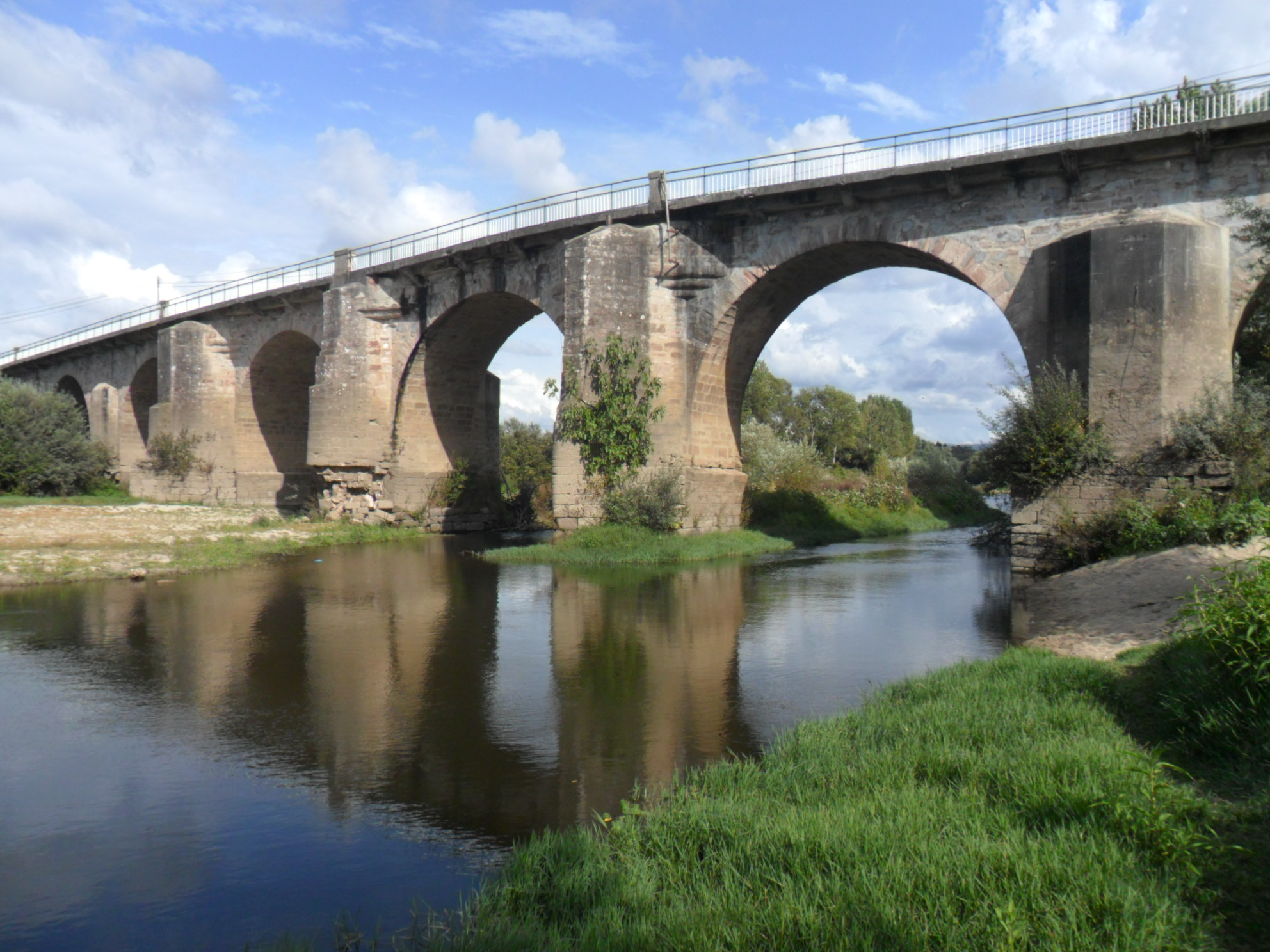 This file was uploaded for Wiki Loves Monuments in Portugal with the unique identifier 74131.